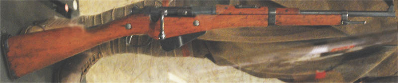 8 mm Berthier M1916 Berthier carbine, from Musée de l'Armée, Paris